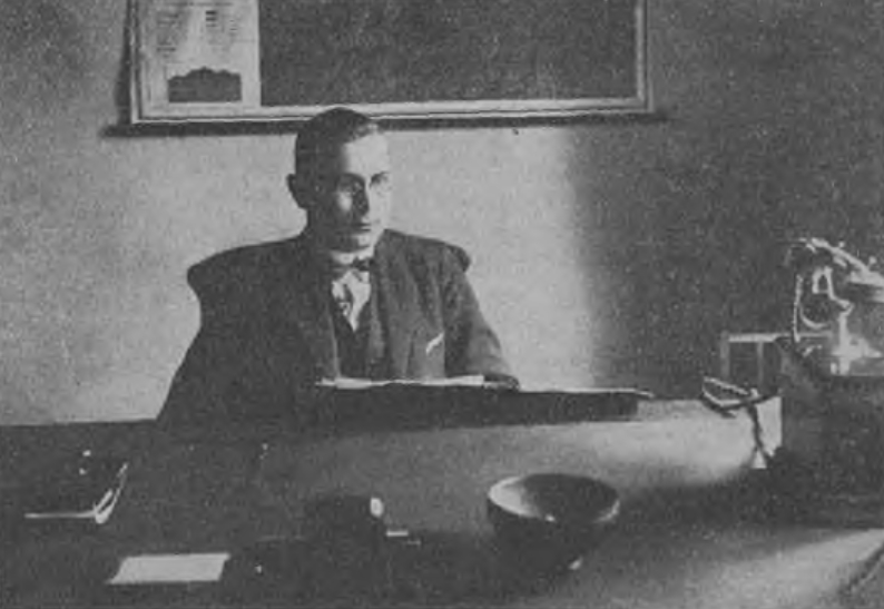 Tadeusz Szaliński (1898–1971) – Polish lawyer and independence activist, member of the Council of the Union of Poviats of the Republic of Poland in 1936 [1].